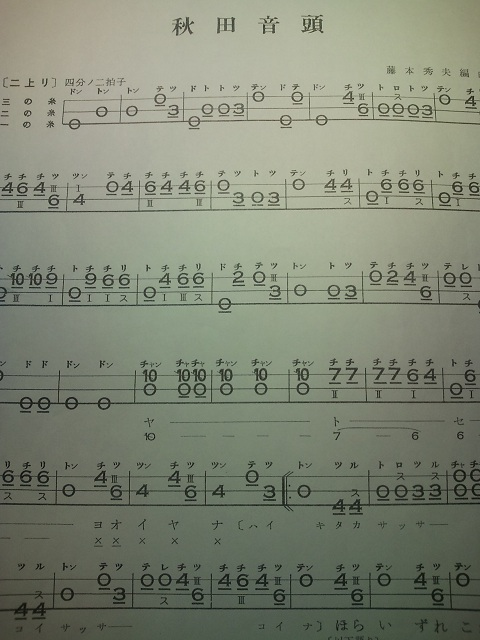 Picture of horizontal shamisen tablature 'bunka-fu'.